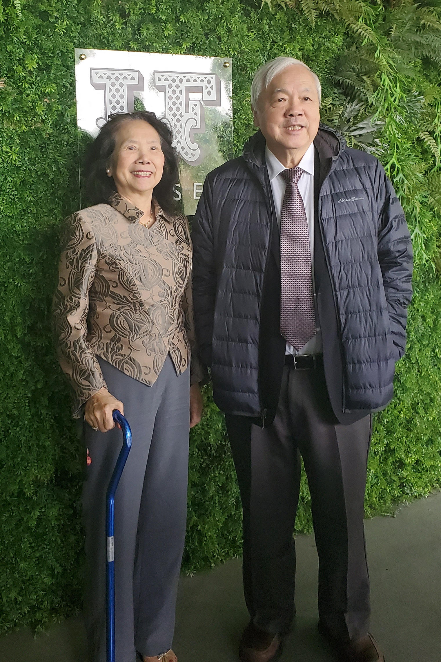 Photo of Mr. and Mrs. Yen